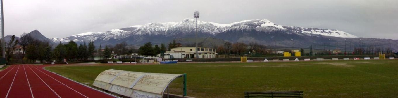 View of Pollino mountains from "Mimmo Rende" stadium in Castrovillari, Calabria, Italy